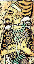 Egyptian faience tile J 36457g, Egyptian Museum CairoDescribed as follows by Uvo Holster: "Northerner. 24.8 cm. high. Cairo J 36457g. Daressy No. 13= Meyer No. 9 B.￼ Daressy considered this figure a Srkg, as did Wreszin- ski.8 9 Both perhaps based the identification on a figure of a Srk§ represented on the Eastern Fortified Gate.90 However, the headband of the latter seems to differ from that on the tile."